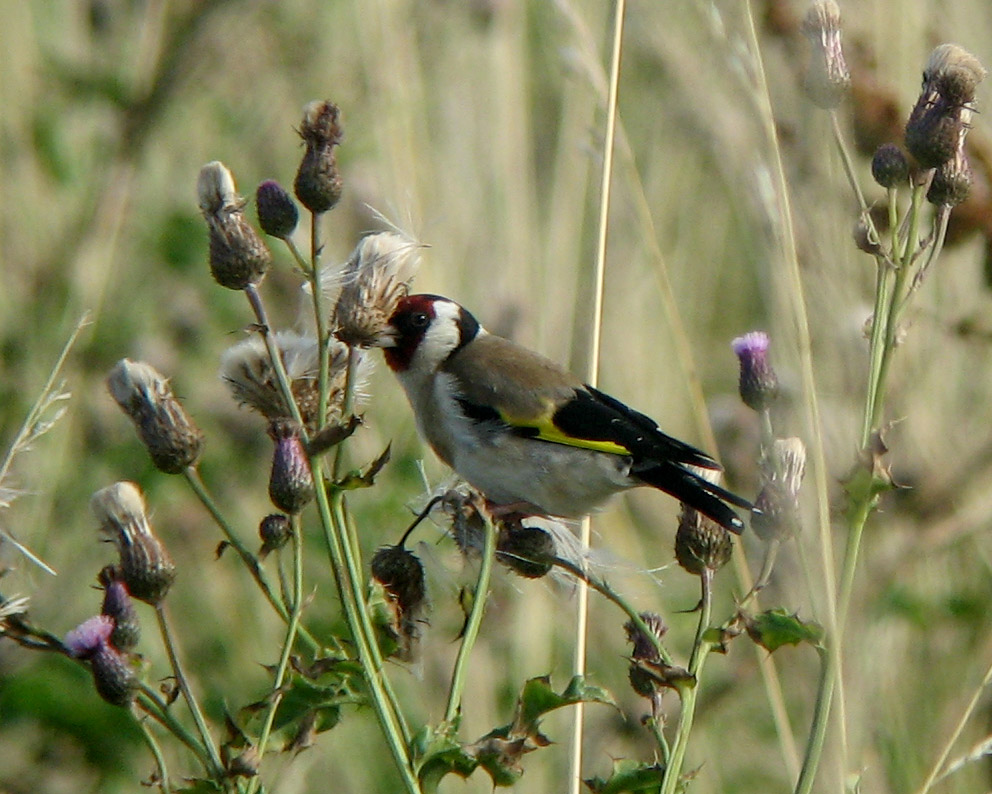 European Goldfinch Carduelis carduelis, St Mary's Wetland, Whitley Bay, Northumberland, UK; 8 August 2005